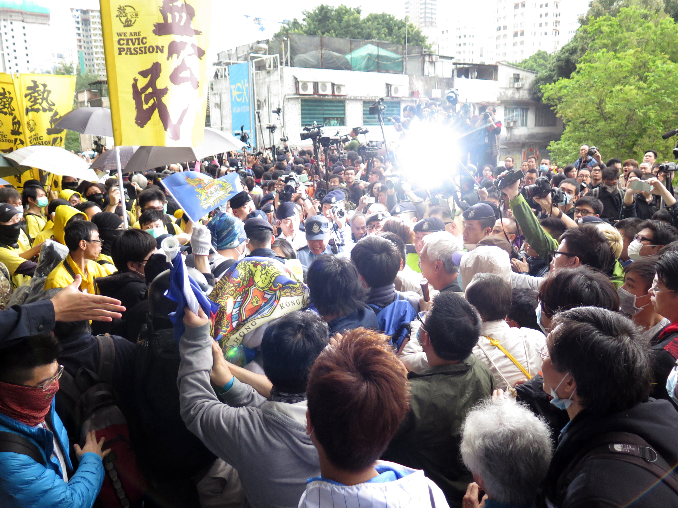 Yuen Long Protest Long Ping Station outside people steal flag